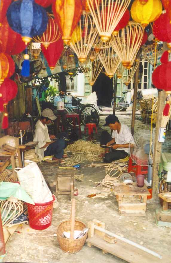 Workshop in Hoi An, Vietnam